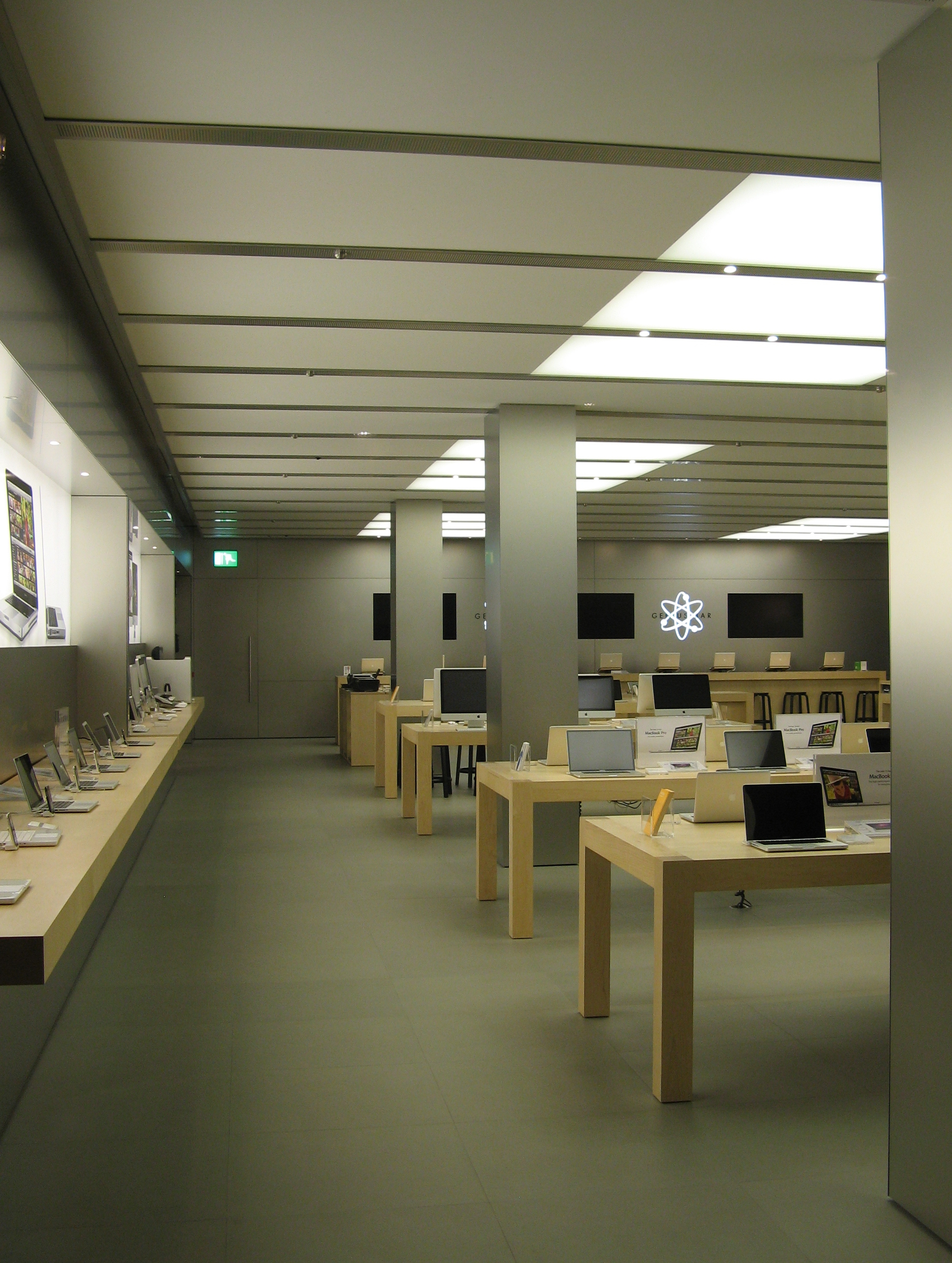 Interior of Apple Store, SouthGate, Bath, England. Photo taken at night after store closed, through front window. The store opened 10:00am on 27 March 2010, so was about two months old when this photo was taken.